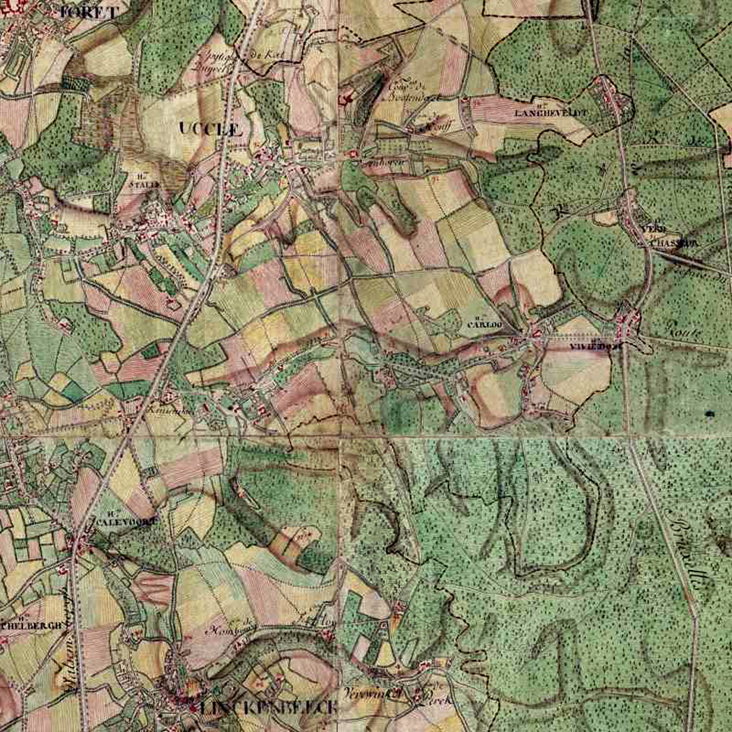 detail of a map from the atlas de ferraris